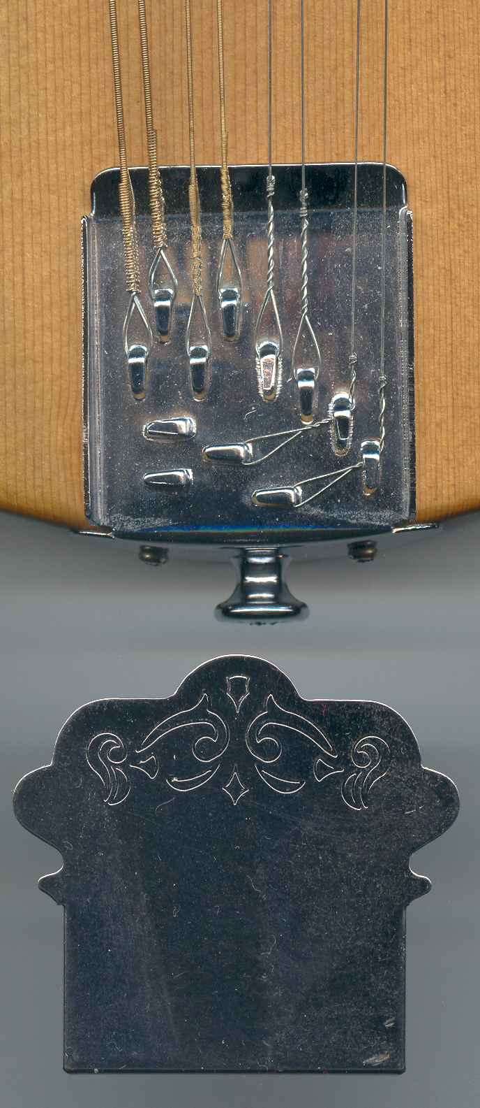 Metal cover plate is shown removed. scanned Just plain Bill 21:12, 14 January 2006 (UTC)